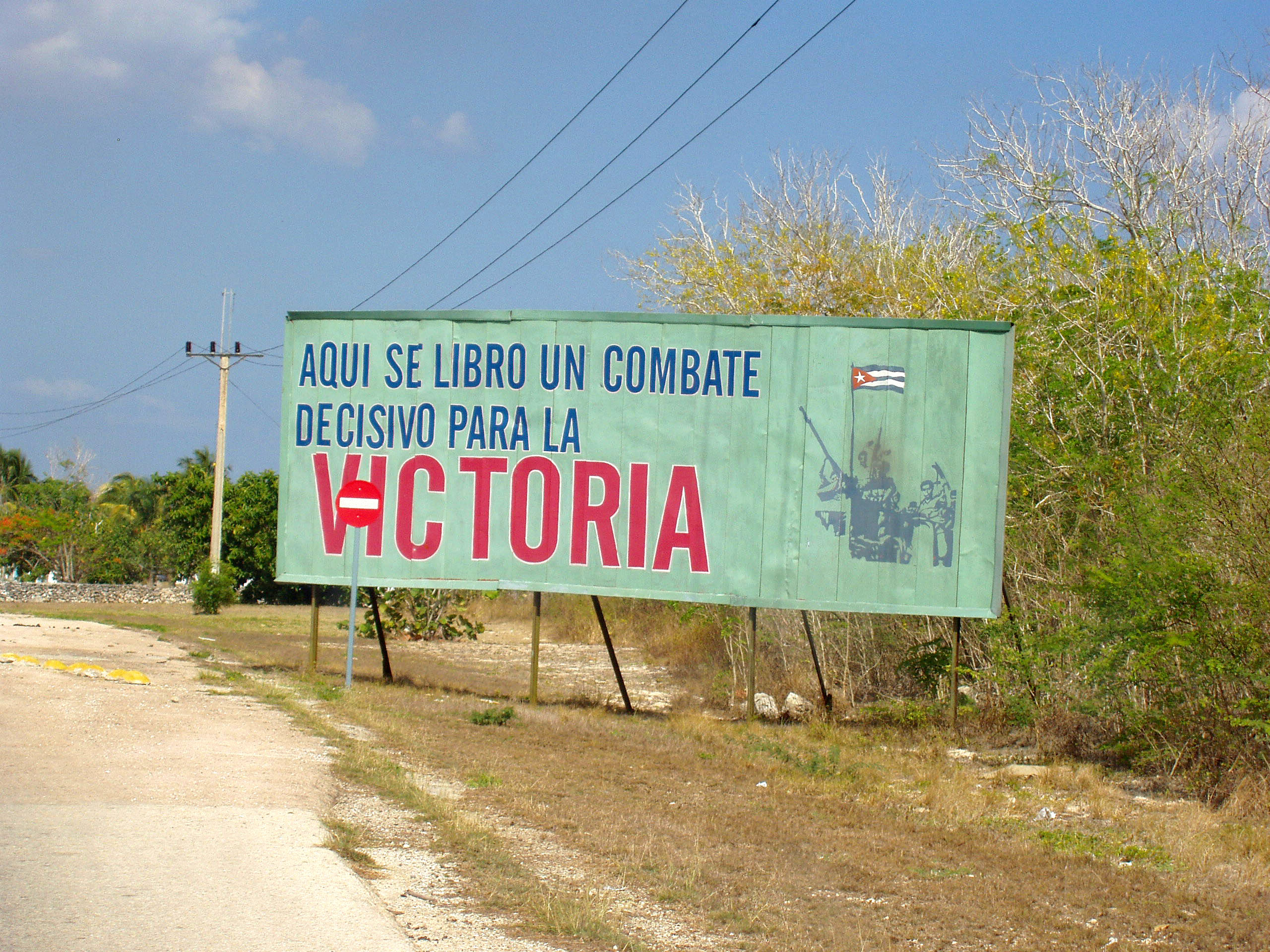 Propaganda sign saying "aqui se libro un combate decisivo para la victoria", Bay of Pigs, Cuba.